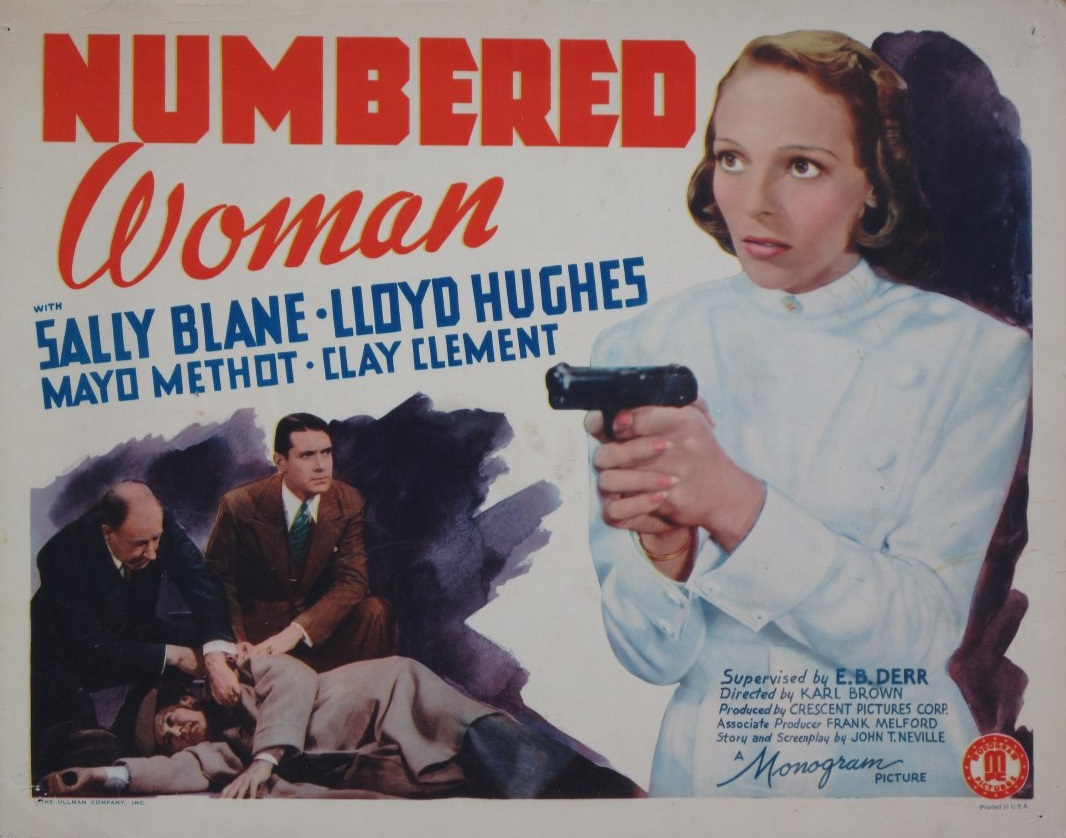 Lobby card for the American drama film Numbered Woman (1938).